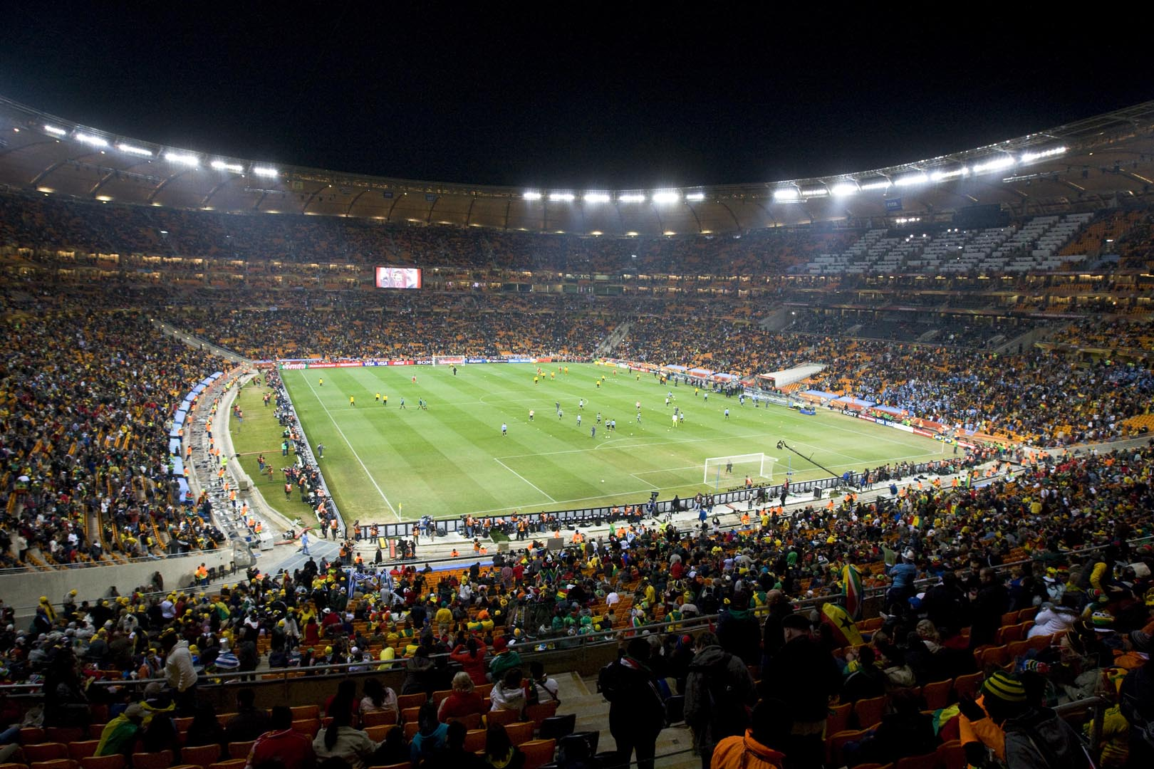 Warm-up before the FIFA World Cup 2010 quaterfinal between Uruguay and Ghana, 2 July 2010, Soccer City, Johannesburg